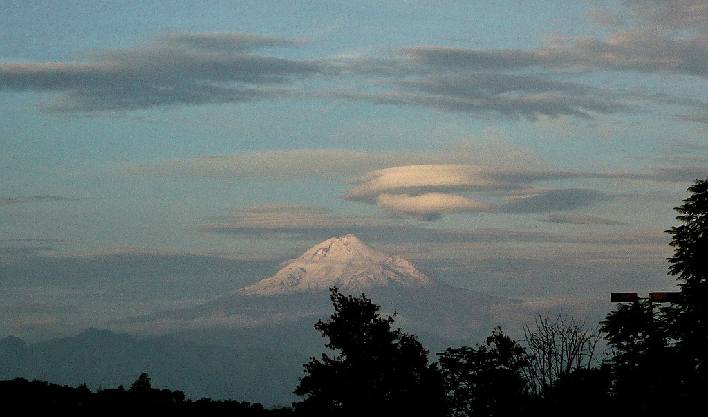 Pico de Orizaba visto desde la Ciudad de Xalapa, Ver.